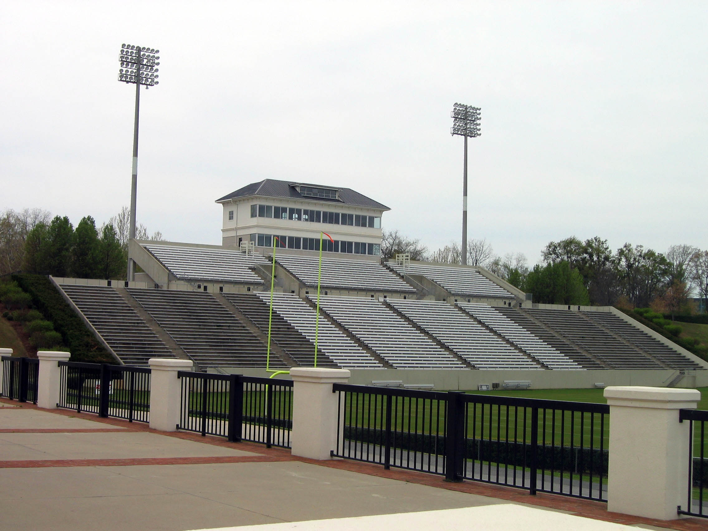 Football & Basketball Facilities Wofford Football Stadium